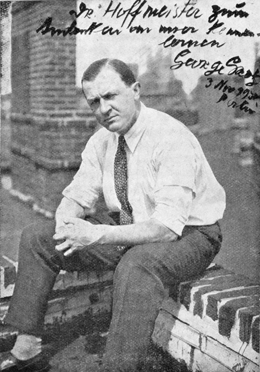 George Grosz, Berlin, 1930